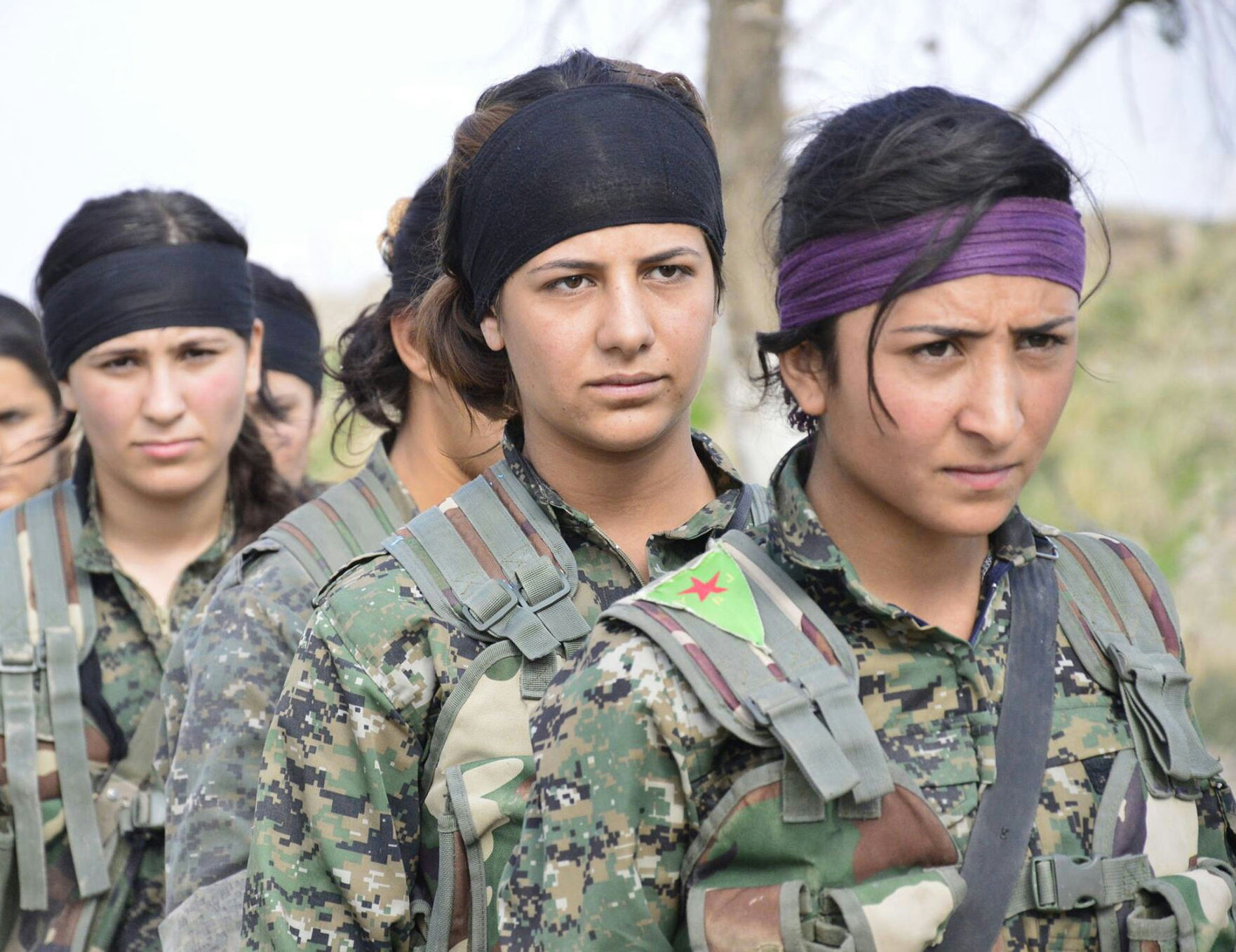 Group of determined looking YPJ fighters